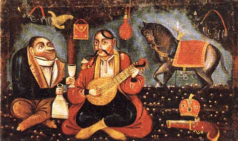 Unknown painter. "Cossack's conversation with a lach" (note that according to art-analysis in 1913 by Danylo Shcherbakivskyi the humorous reference to Polish "lach" is unlikely, given than neither his looks nor his cloths resemble those of a typical lach, thus this inscription "conversation with a lach" is likely from a later period). First half of XIX century. Linen, oil. 67х95 (Full dimension). National Art Museum of Ukraine